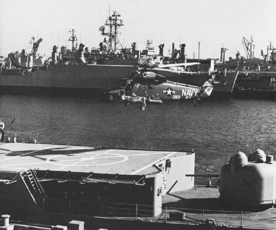 One of two U.S. Navy Kaman YSH-2E Seasprite LAMPS II-prototypes (BuNo 150169) landing on the guided missile cruiser (then "frigate") USS Fox (DLG-33) at San Diego, California (USA), in 1971.